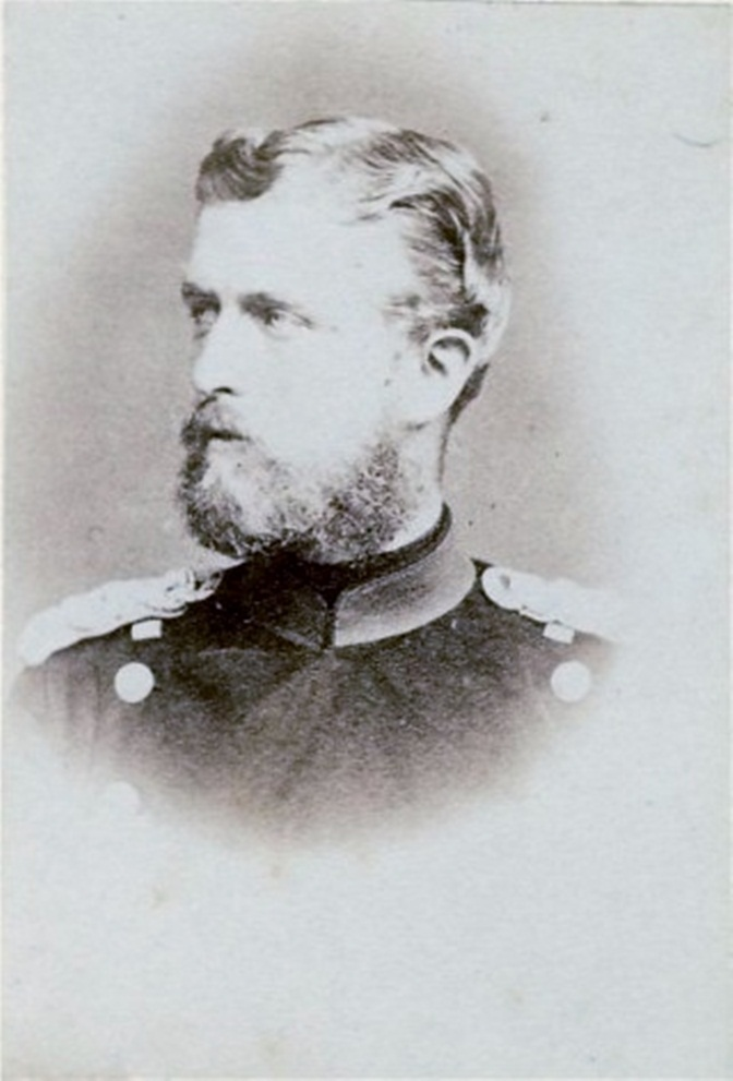 Fürst Leopold von Hohenzollern-Sigmaringen